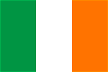 Irish Flag